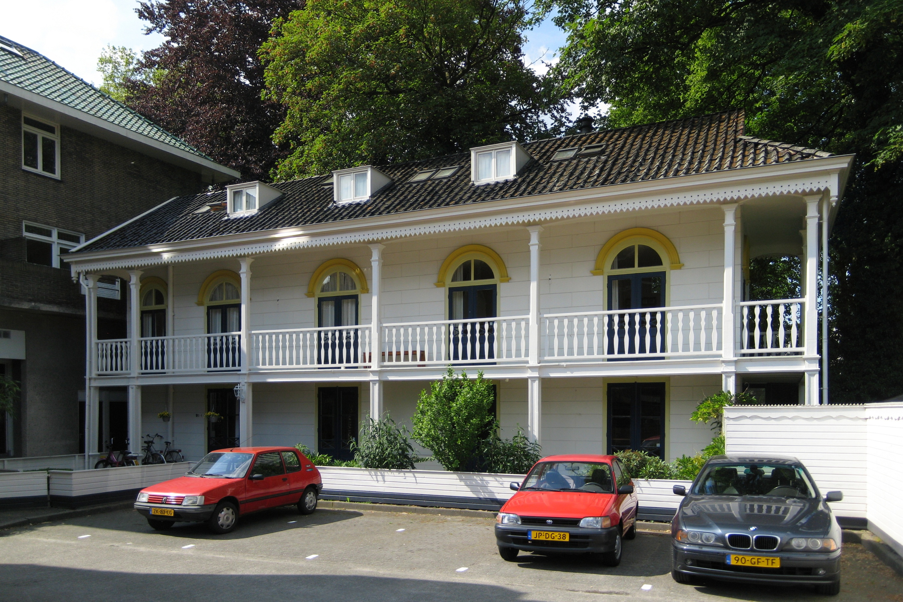 The Javaanse Huis (c. 1885) in the Dutch city of Groningen.